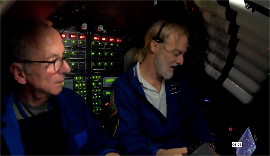 On February 1st, 2020, Caladan Oceanic's ultra-deep diving submersible Limiting Factor descended off the coast of Toulon to investigate the wreck of the SS Minereve (S647), lost with all hands in 1968. Accompanying the pilot, Victor Vescovo, was a retired member of France's submarine community, Admiral Jean-Louis Barbier. The mission was to survey the wreck at a depth of 2,350 meters to help discover the true cause of its unexplained sinking.